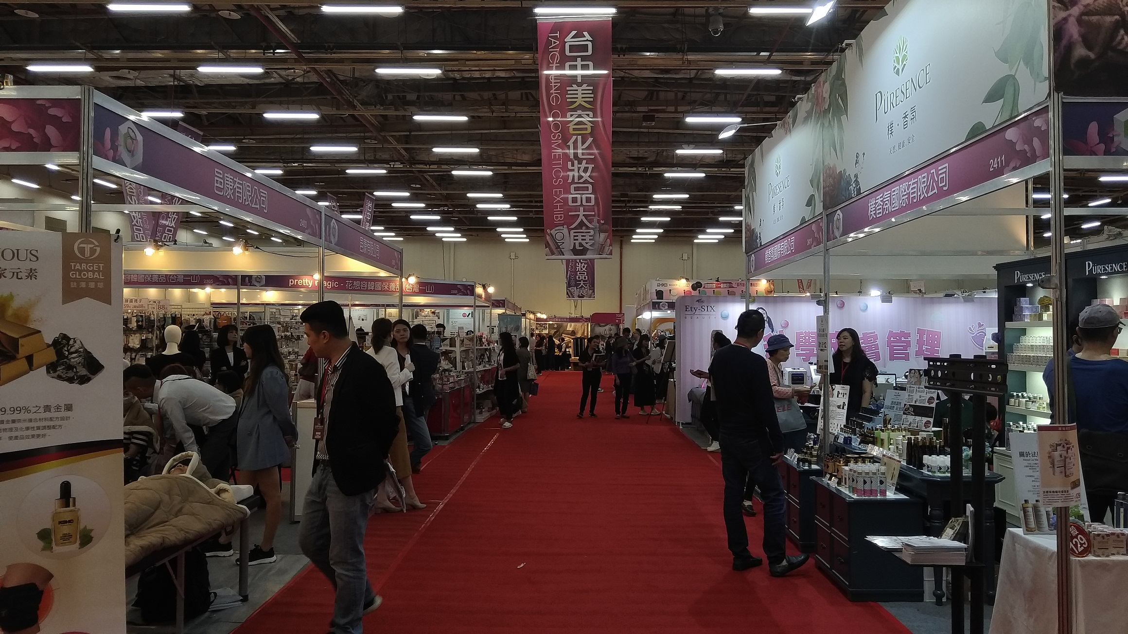 2019 the 11th Taichung Cosmetic Exhibition at Hall 2, World Trade Center Taichung.